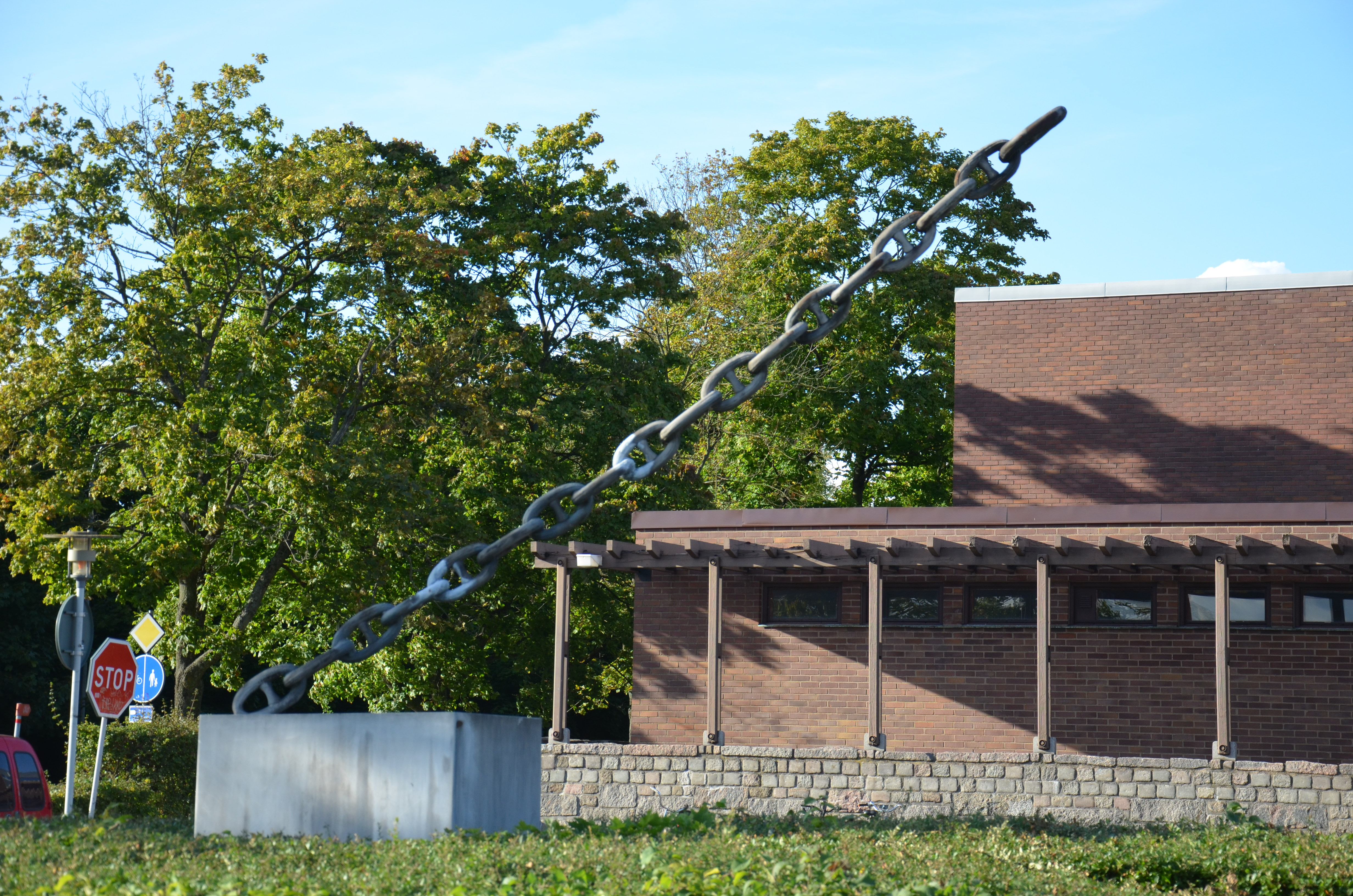 Oscar Reutersvärd's Tungt flytande flykt ("heavy liquid escape"), outside Lunds bollhus